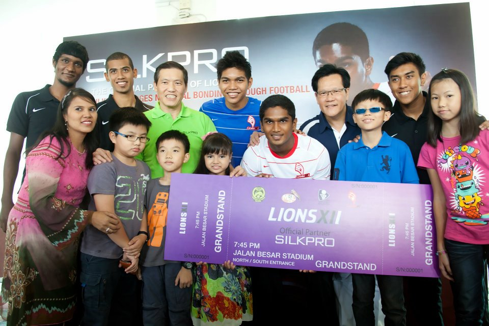 A ceremony marking SilkPro's sponsorship of the LionsXII at the start of the 2012 season in the VIP Room of Jalan Besar Stadium, Singapore. Hariss Harun is in the centre.